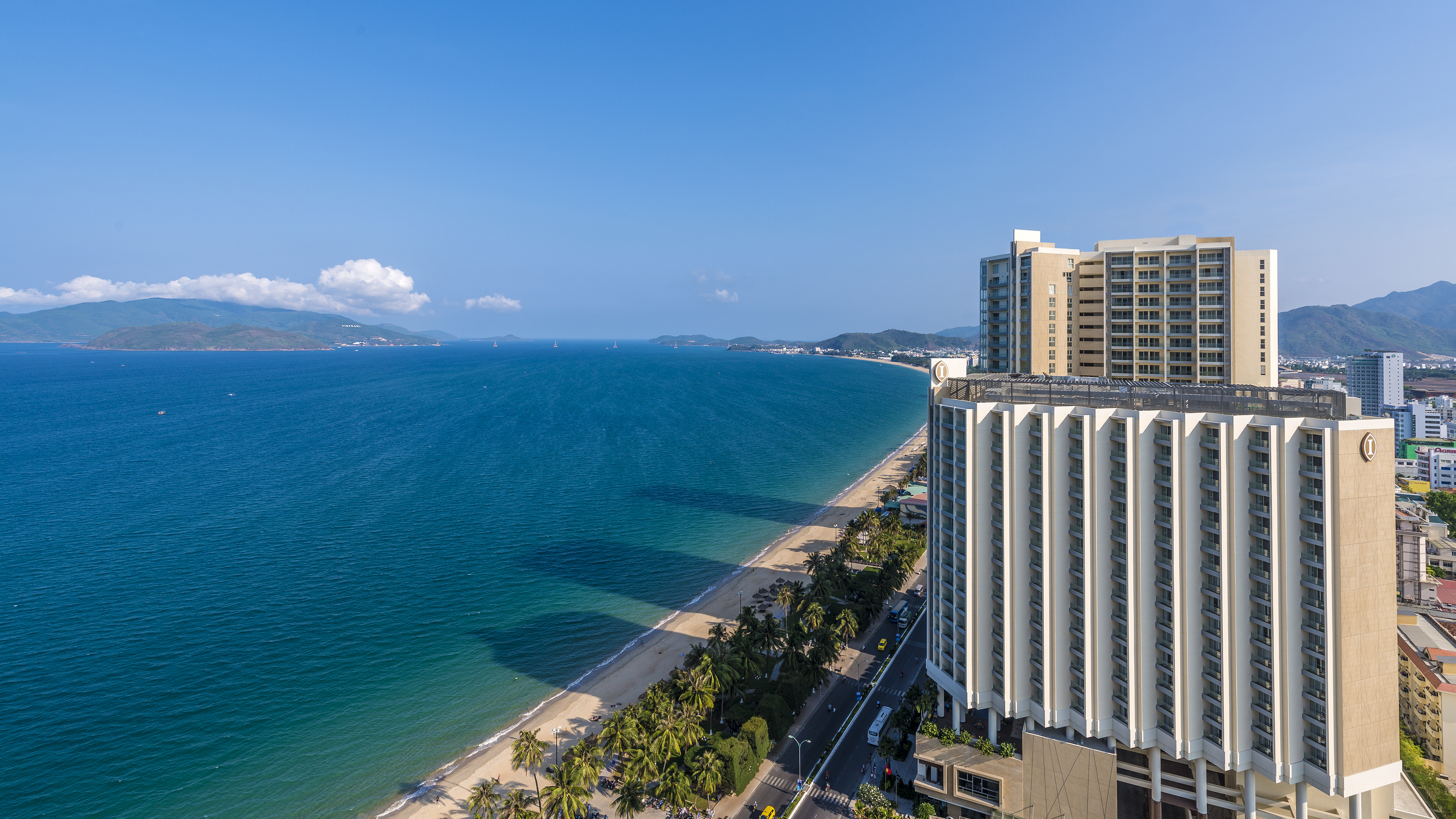 InterContinental hotel overlooks a breathtaking view of the white sandy bay of Nha Trang and is superbly located on the golden Tran Phu street.